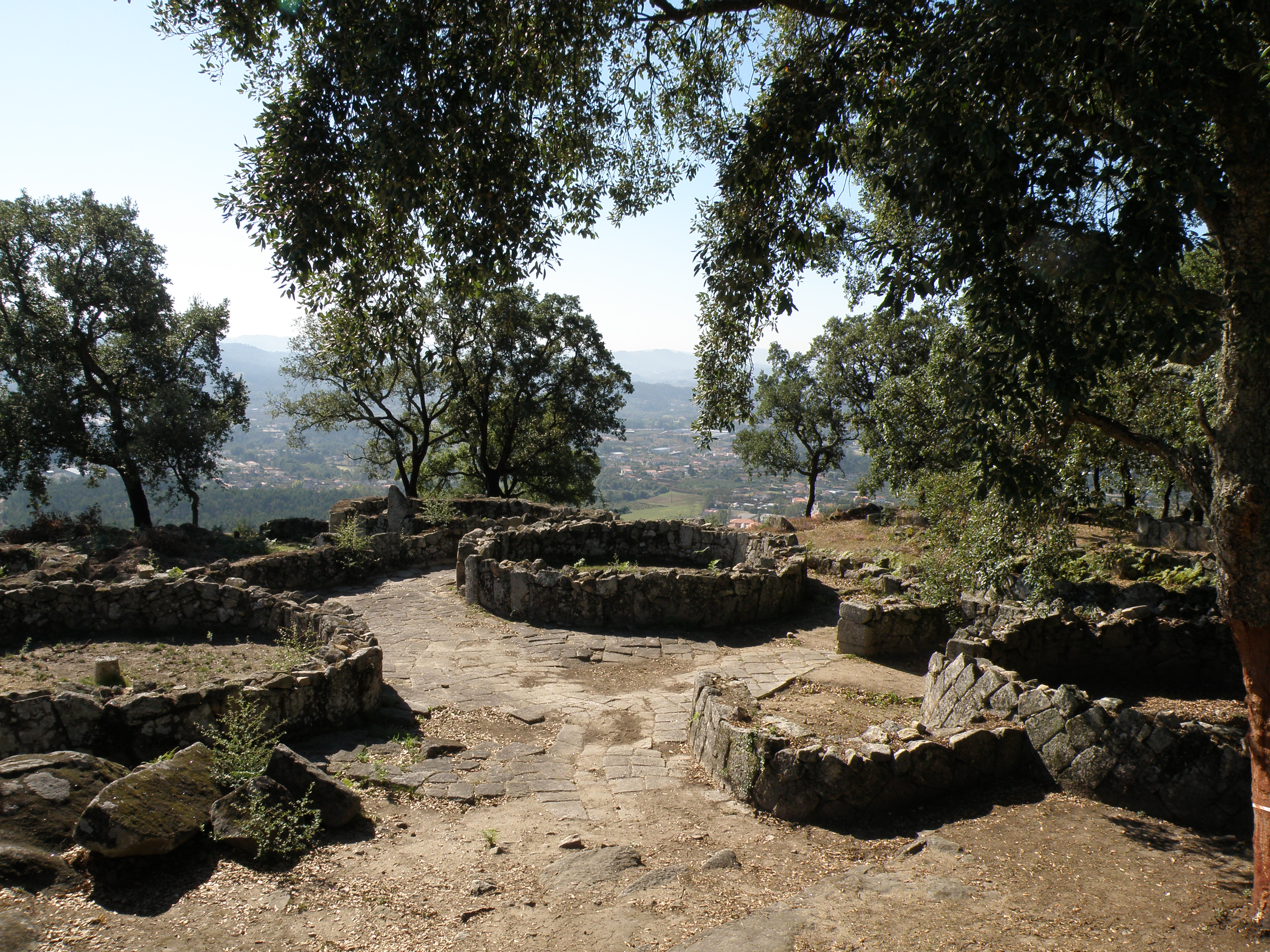 View of the Citânia de Briteiros acropolis, showing ruins of houses and stone paving in a courtyard